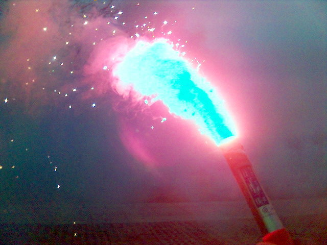 Polish Navy emergency flare – Red flare, maritime distress signal, COLREGS Annex IV (i)